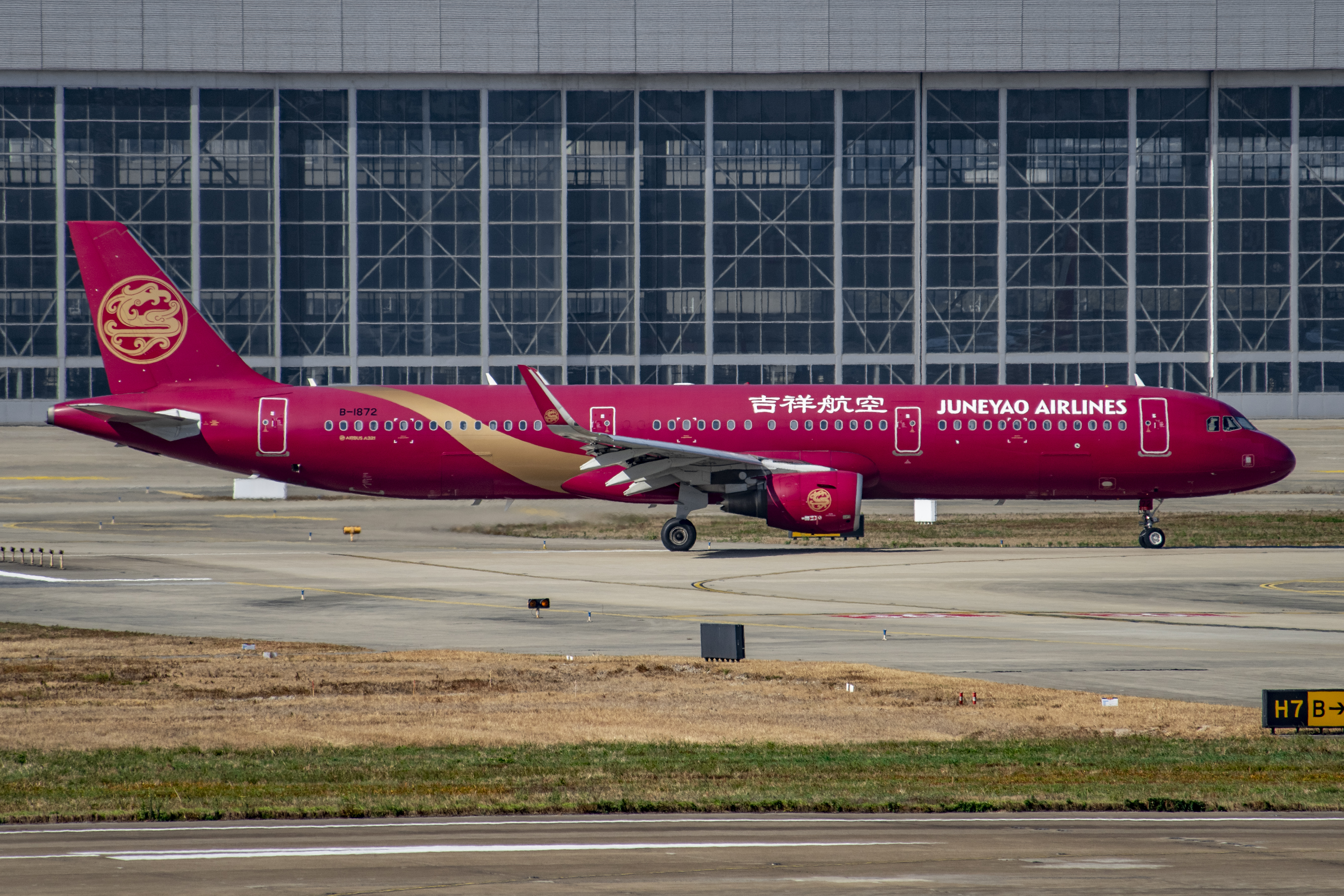 Juneyao 1177 to Sanya.